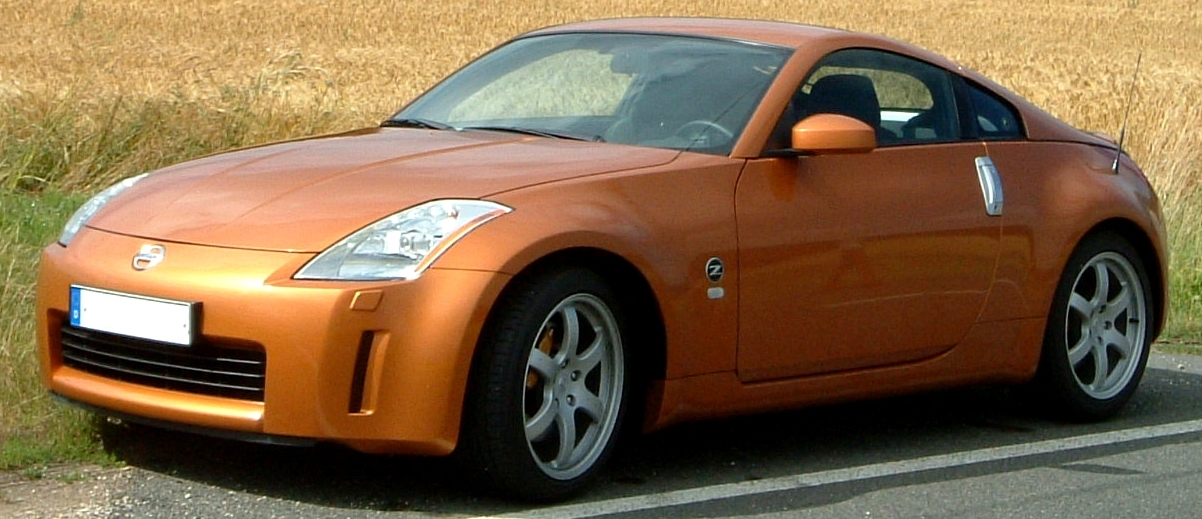 Nissan 350Z, registered in GermanygOriginal photograph modified using GIMP (removed license plate number, cropped)Nissan 350Z